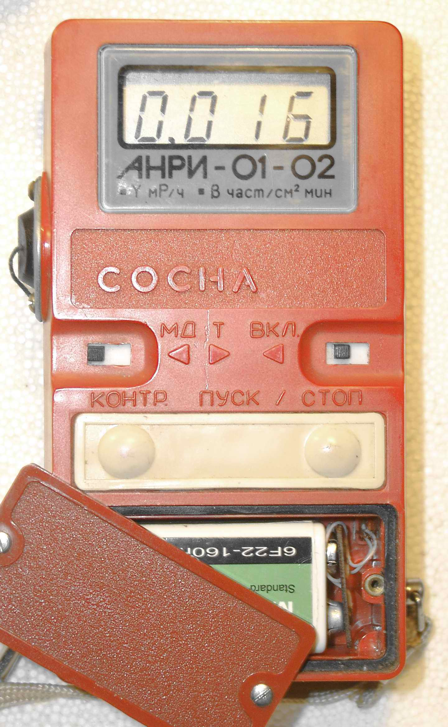 Dosimeter/radiometer Sosna (ex-USSR made). Front view. On the radiometer is written : ANRI-01-02 (type) Gamma : milliRoetgen / hour - Beta : particles / cm² minute SOSNA (builder) MD / T - VKL CONTROL - Start/Stop